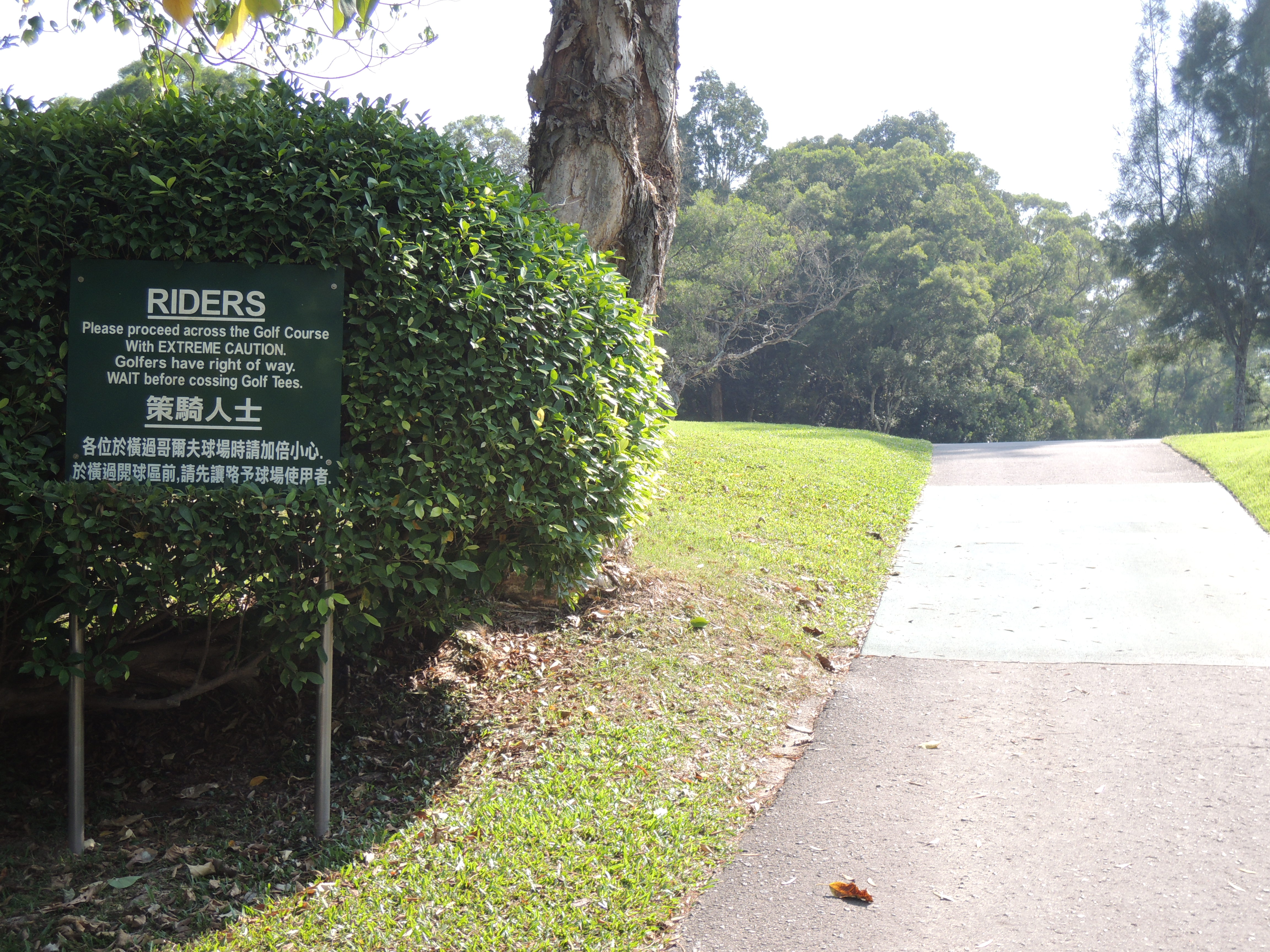 Warning for rider